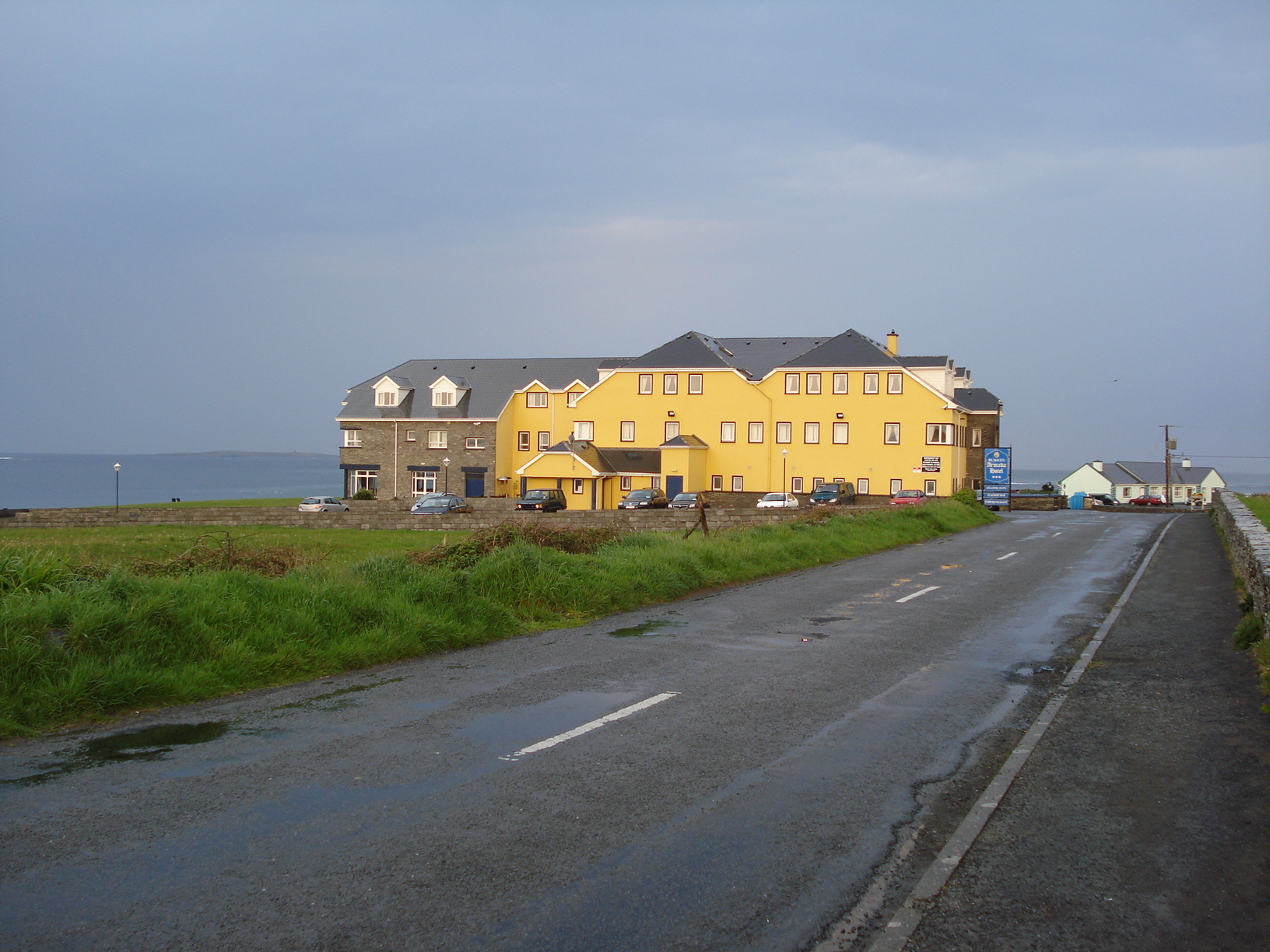 Burke's Armada Hotel in 2007.